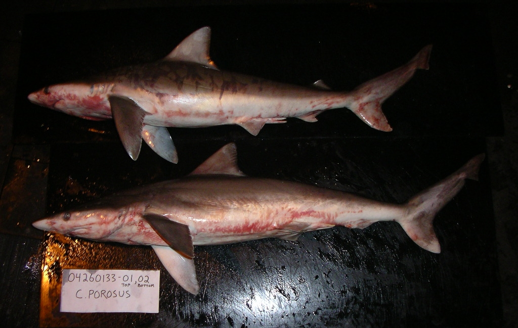 Smalltail sharks (Carcharhinus porosus) from Gulf of Mexico